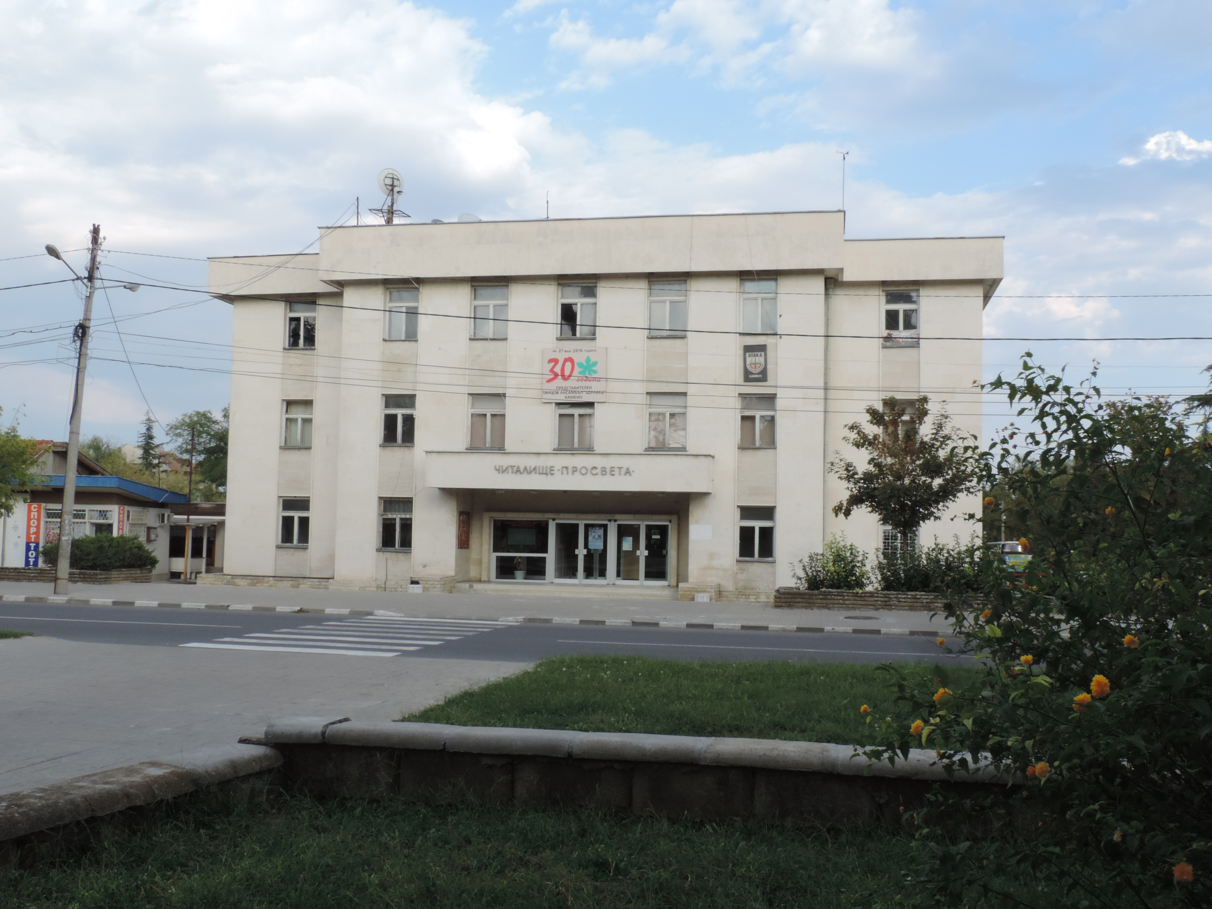 Chitalishte "Prosveta", Kameno, Burgas Province, Bulgaria